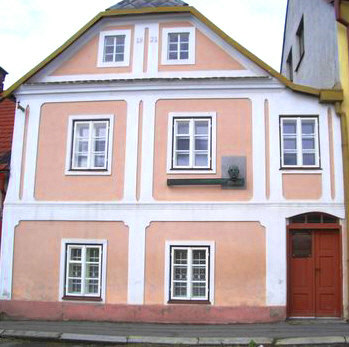 Birth house of the Czech poet Otakar Brezina (1868-1929) in Počátky (Czech Republic, Vysočina Region)